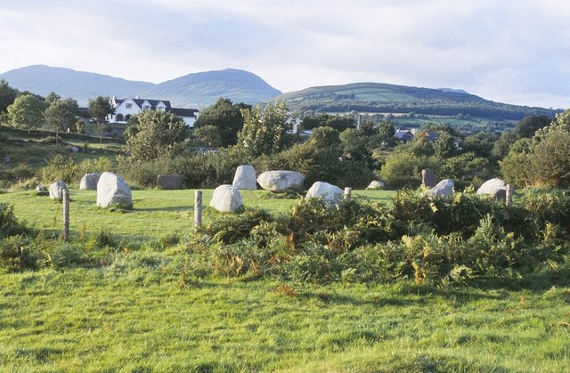 Kenmare Stone Circle This stone circle is about 300 metres west of the town centre of Kenmare in an area known as The Shrubberies. It comprises a ring of 15 free-standing stones, 13 upright and 2 prostrate, with a diameter of about 16 metres. These circles are thought to form part of the funerary or ritual tradition of the Bronze Age, dating from between about 2400 BC and 500 BC.